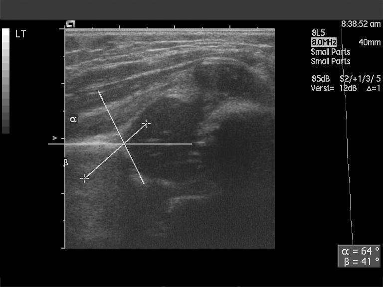 Ultrasound of a human newborn normal left hip (type Ia according to Graf R).